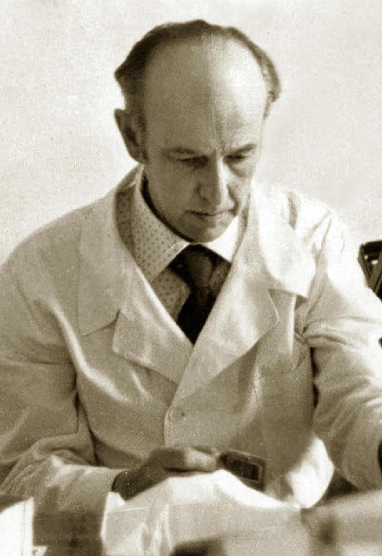 Gubler Evgeniy. Professor.